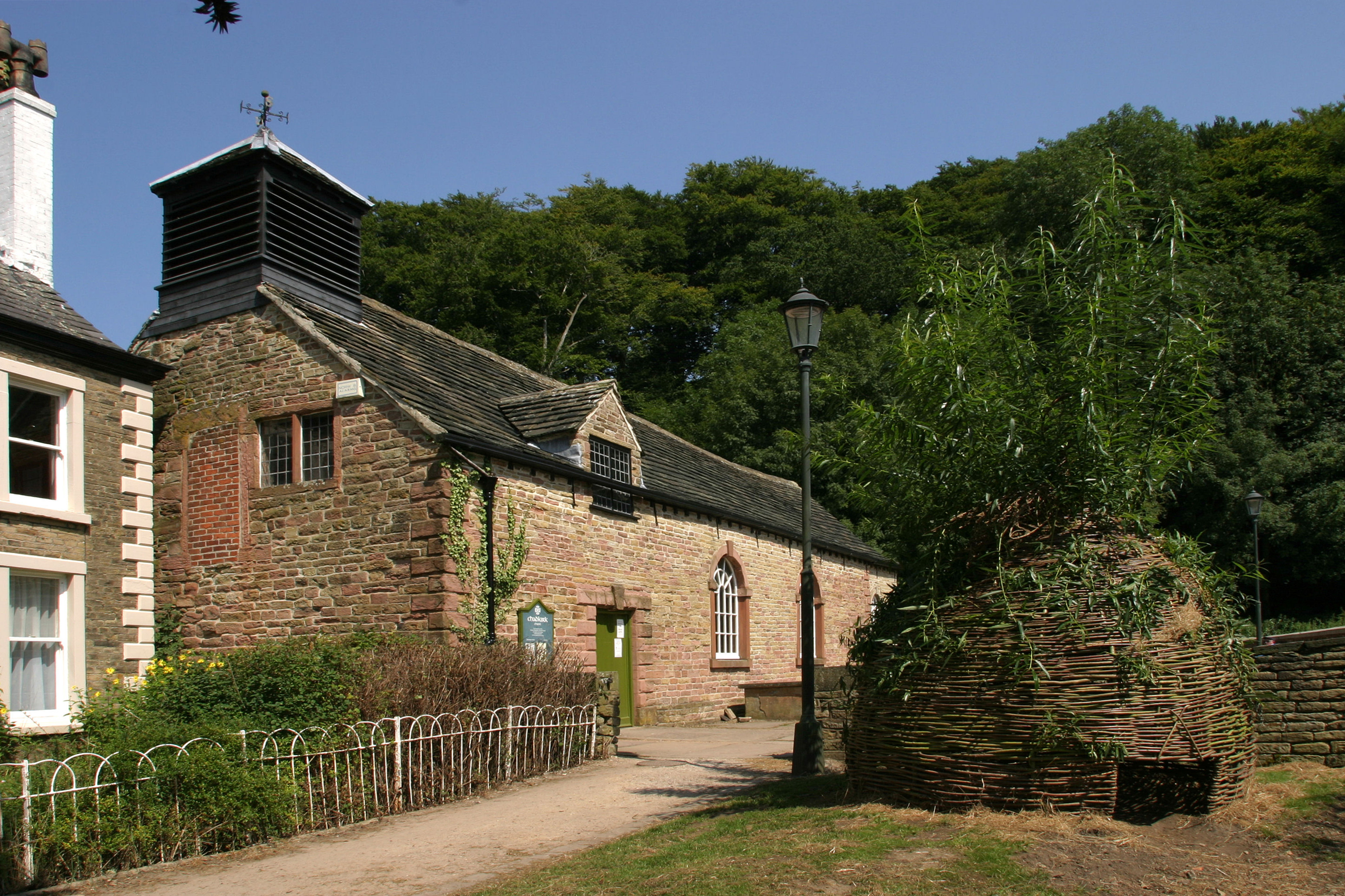 Chadkirk Chapel seen from the south west